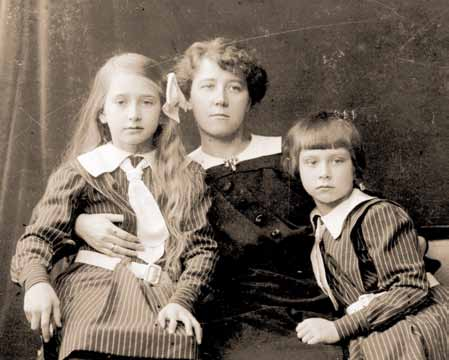 Elena Stravinsky with daughters Tatyana and Ksenia, 1913